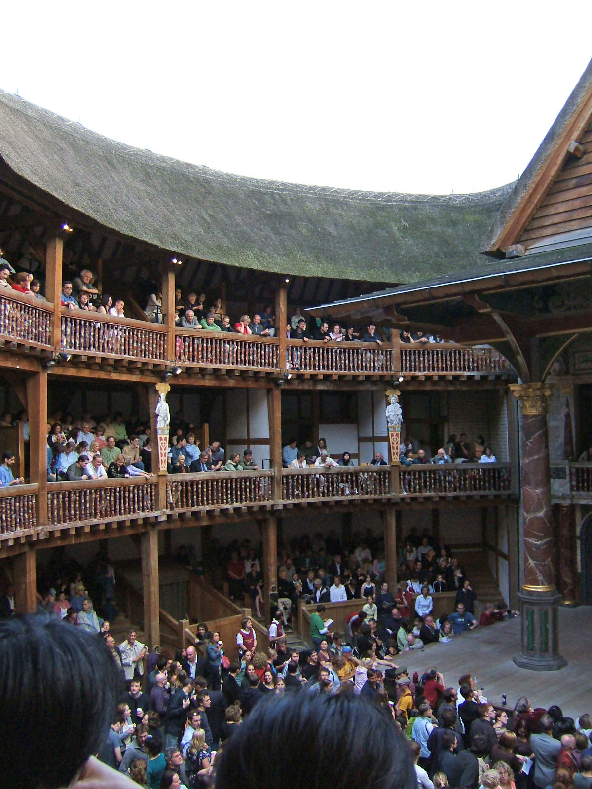 the Globe theatre